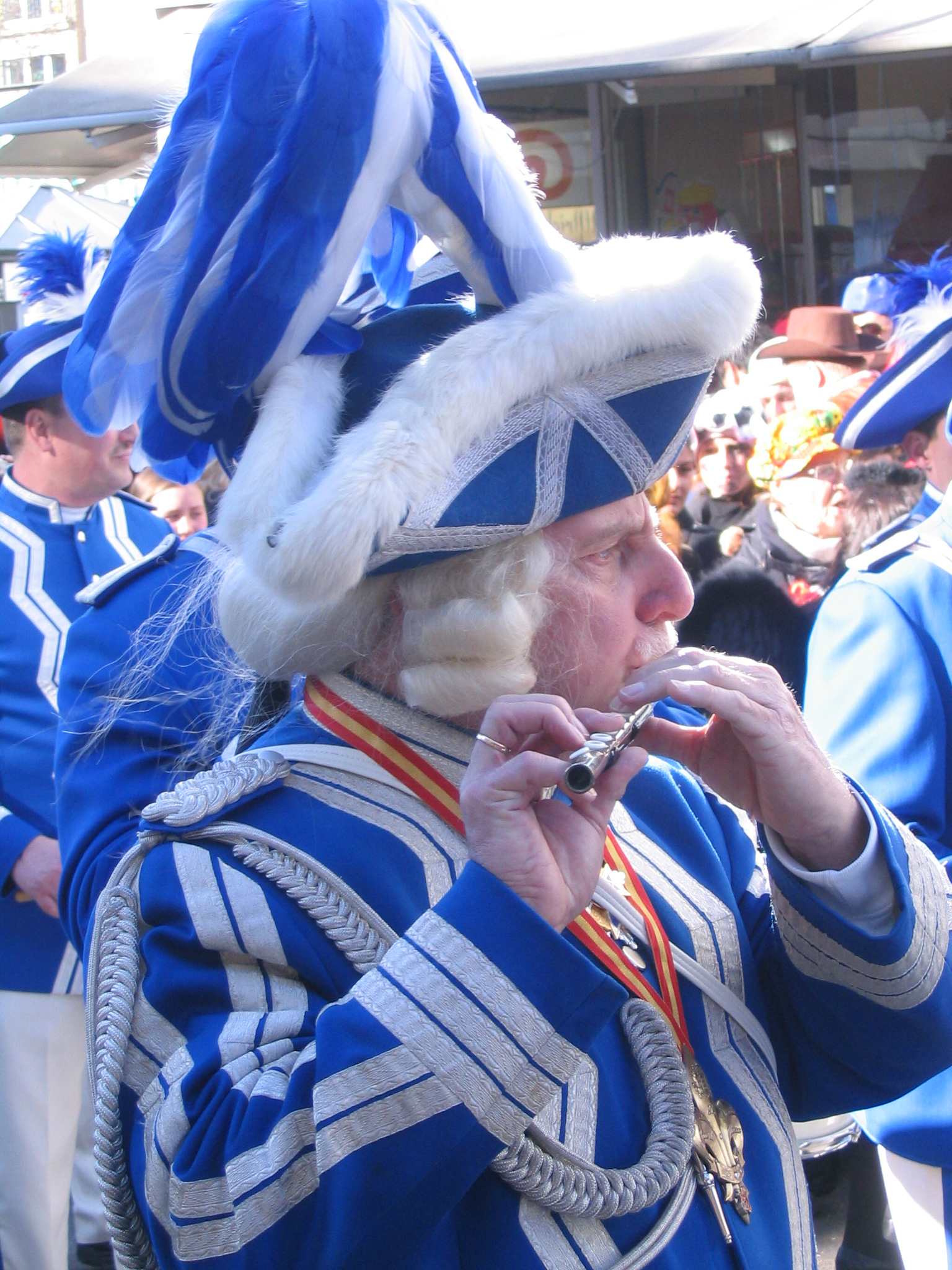 Carnival in Düsseldorf, 2011.